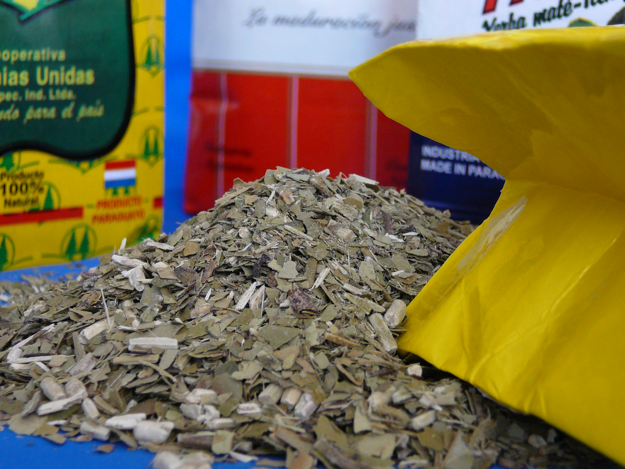 Yerba mate